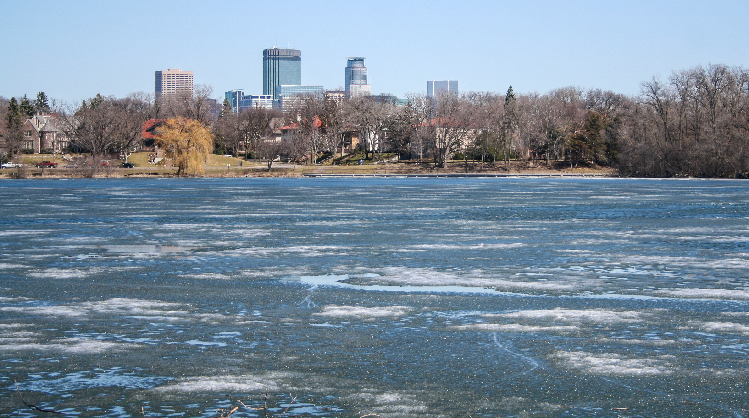 Lake of the Isles Skyline